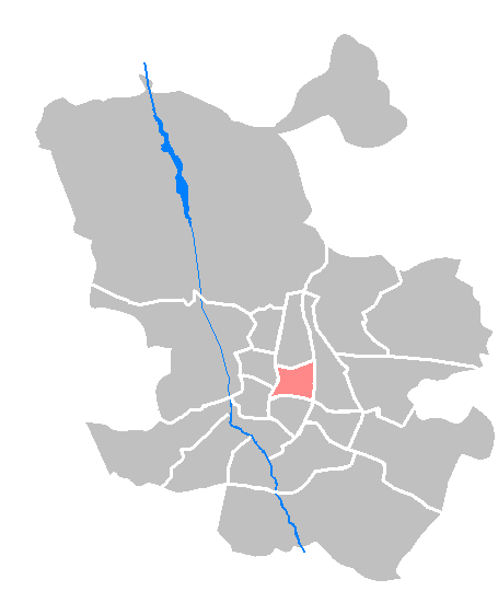 Locator maps of districts in Madrid: Maps - ES - Madrid - Salamanca.PNG